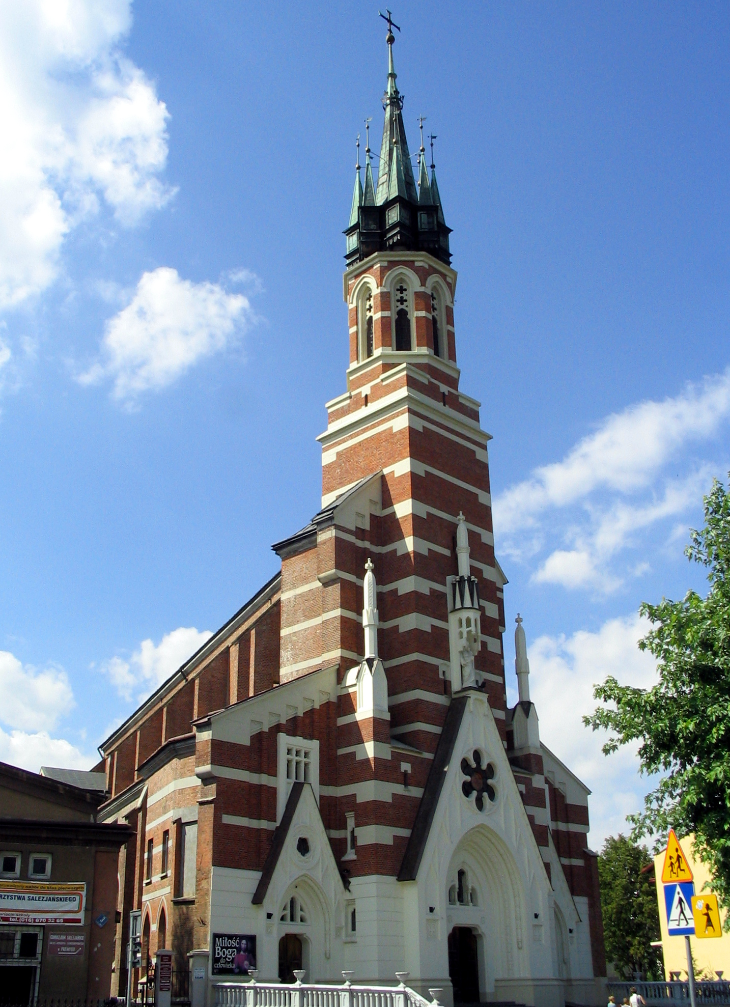 Salesians Church in Przemyśl, Poland